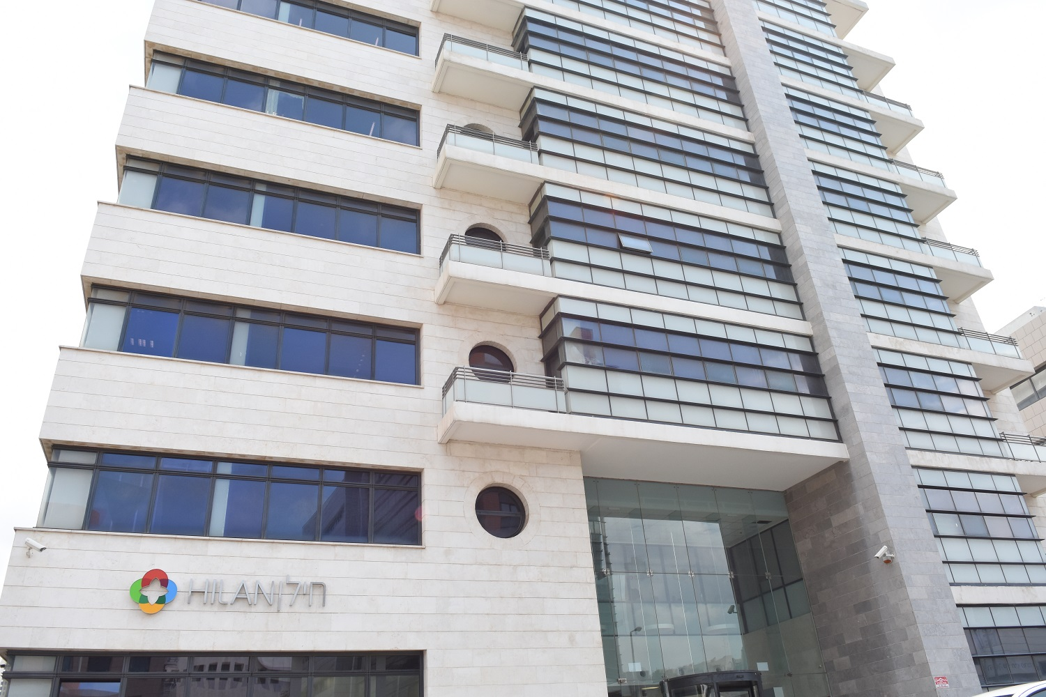 Hilan building